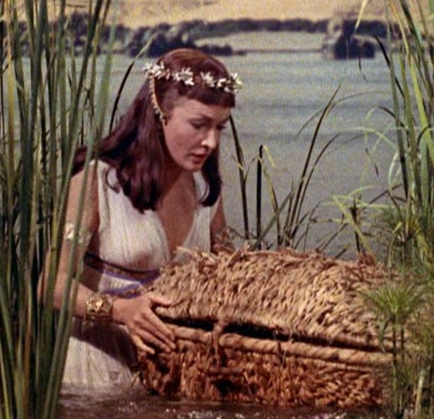 Cropped screenshot of Nina Foch from the trailer for the film The Ten Commandments.